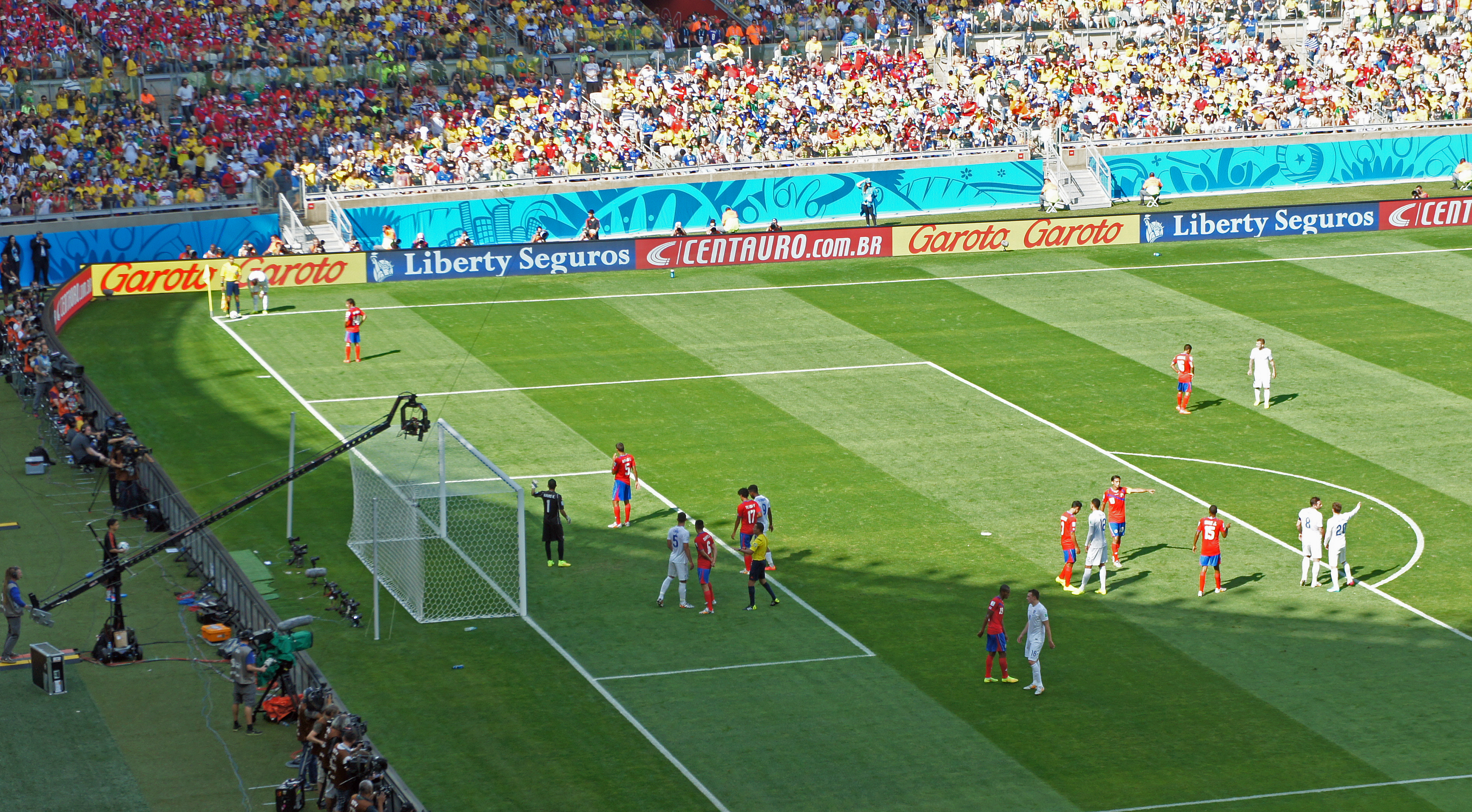 Corner kick during the Costa Rica and England match at the FIFA World Cup 2014 at Estádio Mineirão in Belo Horizonte